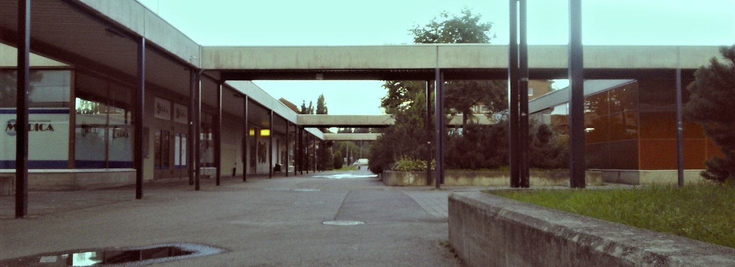 Huhtakeskus, Summer 2014.